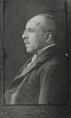 Leopold Wołowicz (1883-1931)